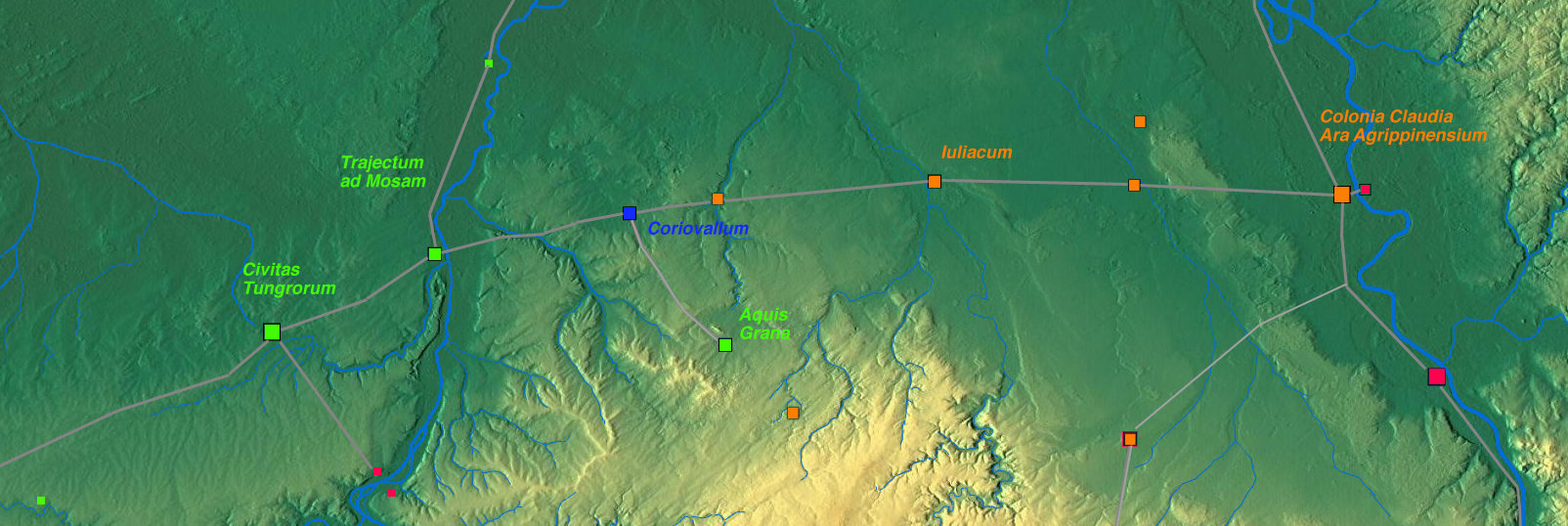 Via Belgica between Tongres and Cologne